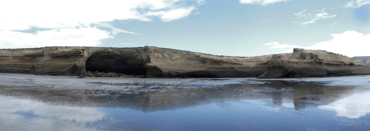 Cliffs carved in the Monte Leon fm. (Oligocene-Miocene), in Monte Leon National Park, Santa Cruz, Argentina. The cave to the left, formerly known as La Hoya, collapsed in 2006 due to wave action.